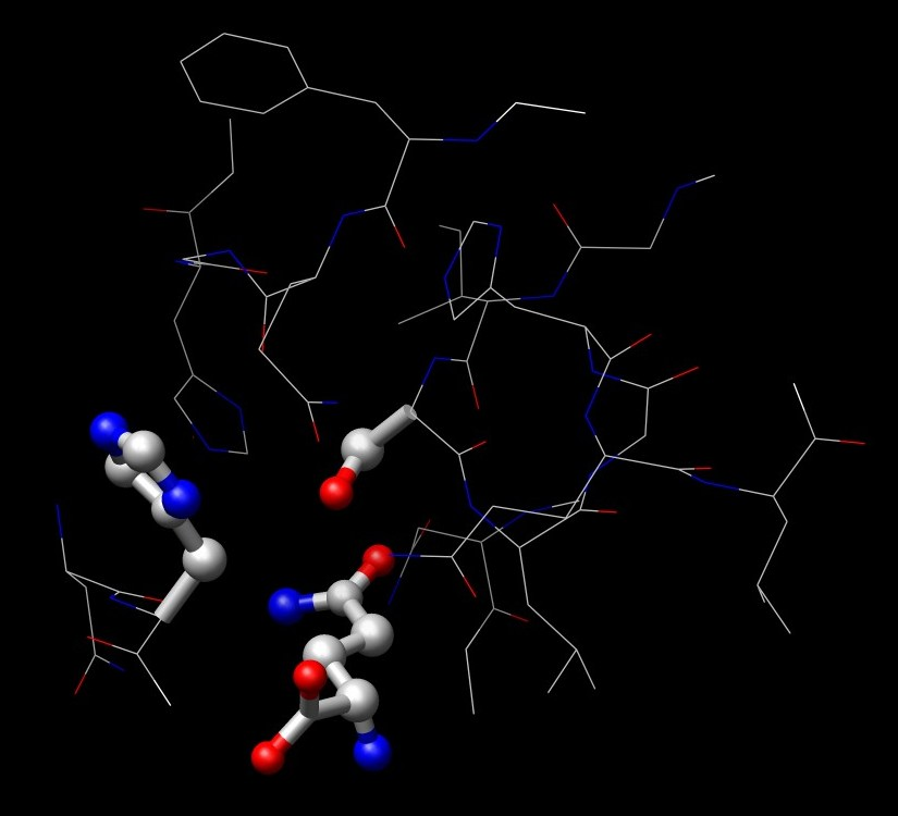 Glutamine binding active site with Cys269 and His353 residues showing with glutamine present.